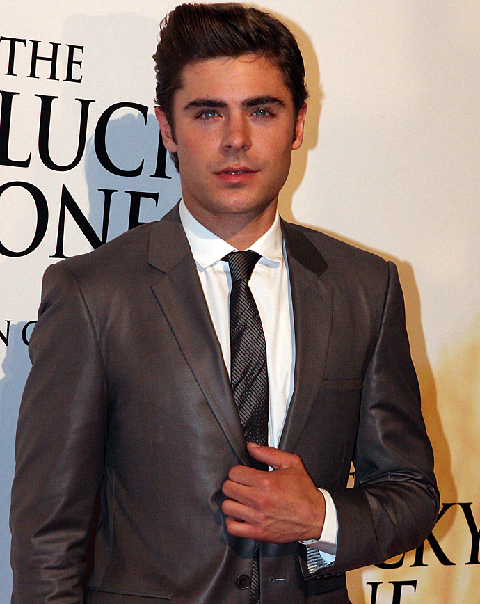 The Lucky One: Zac Efron, The World Premiere At Bondi Juction, Sydney, Australia 2012.